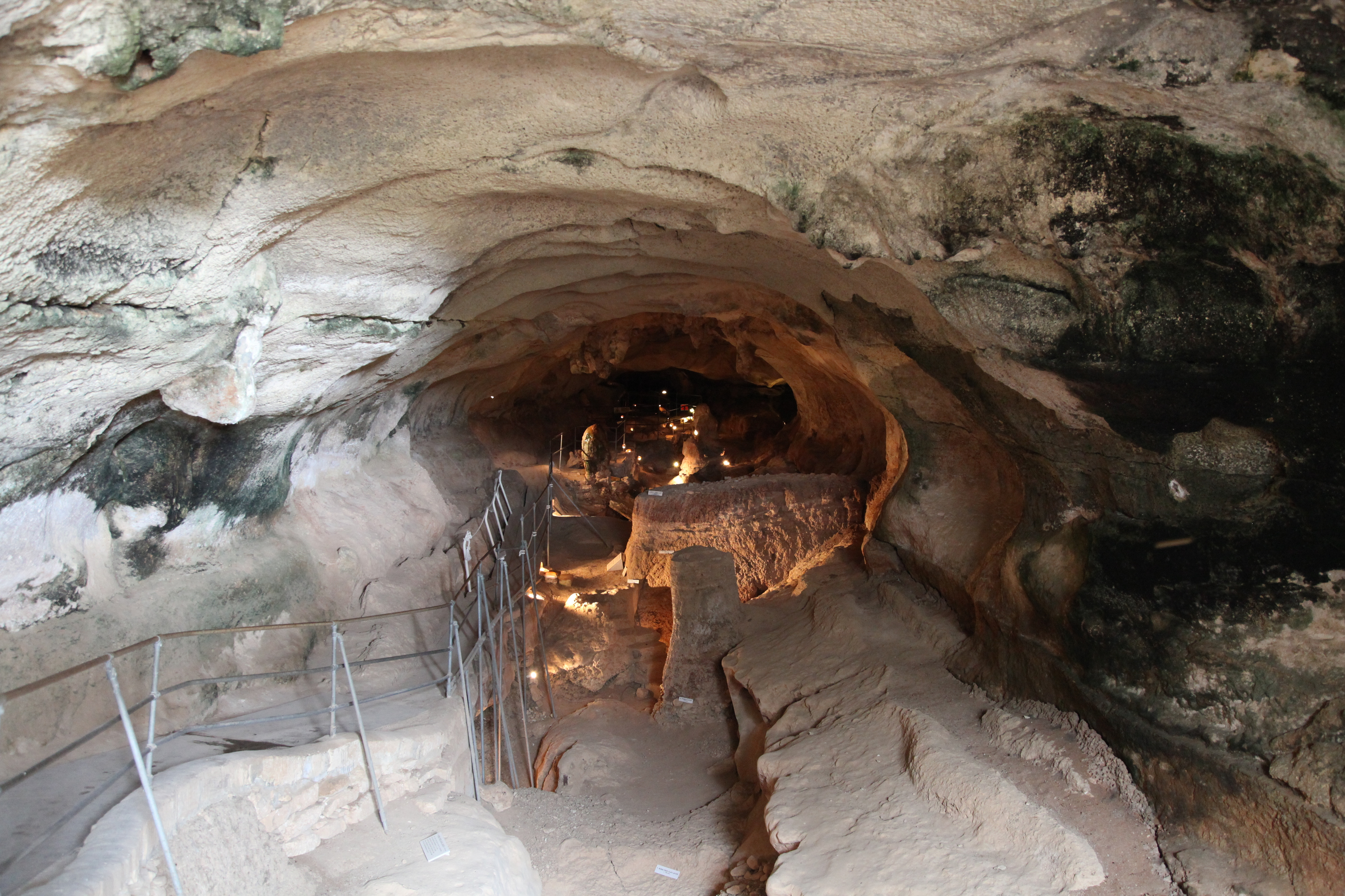 Cave of Għar Dalam, Triq Għar Dalam in Birżebbuġa